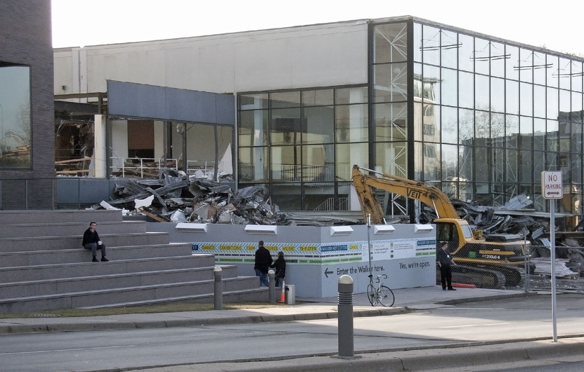 It's going. (Ralph Rapson, 1963)